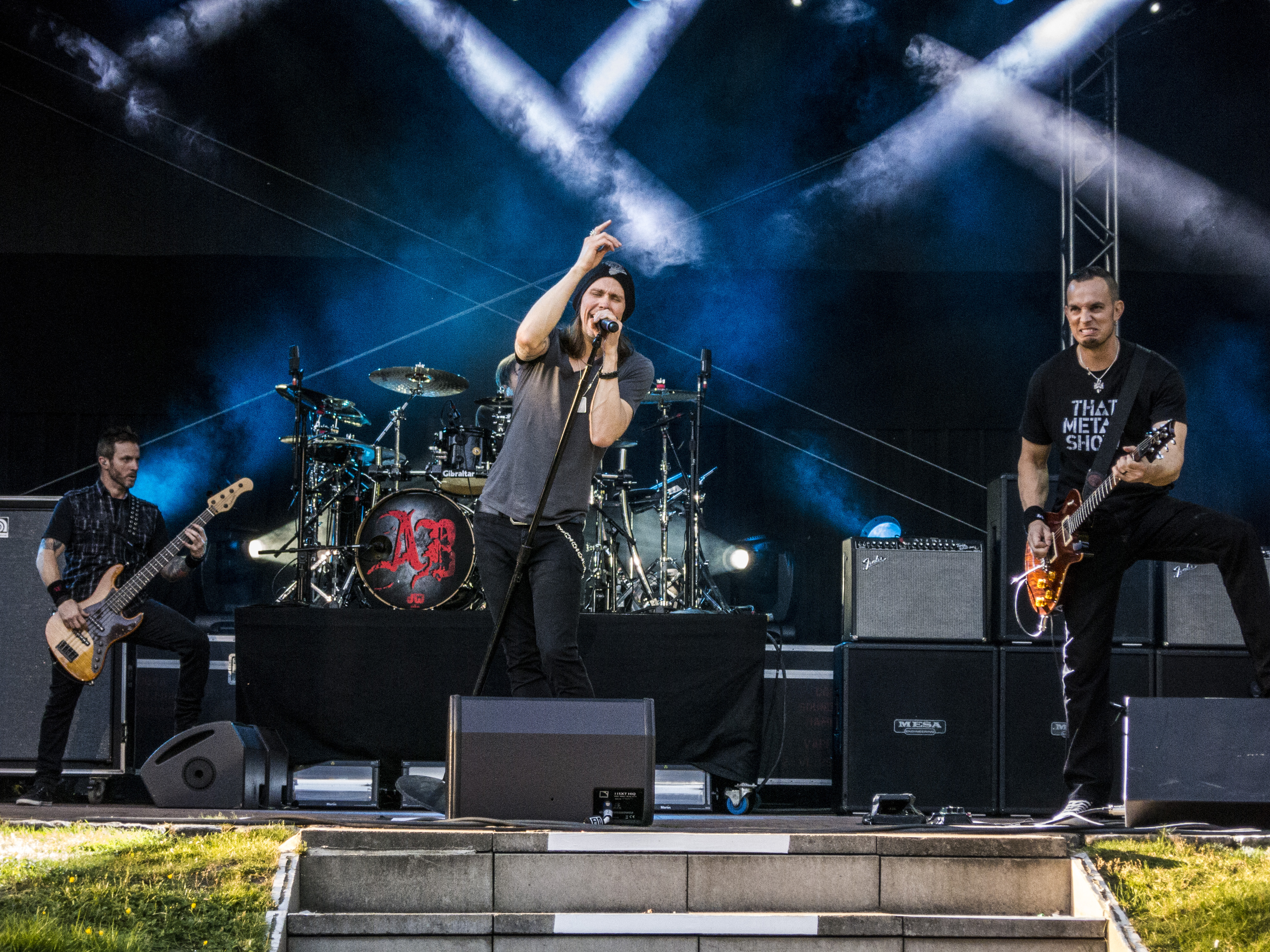 Alter Bridge at a concert in Hamburg, Germany